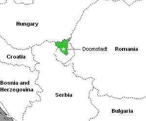 A rendition of the fictional nation of Latveria (in green) and its capital Doomstadt, with surrounding countries named, with the exception of Symkaria, another fictional nation, just below Latveria. Created by Brian M Riesbeck as :Image:Latveria.jpg, modified by User:JQF to include surrounding country names in bold. Original: frame|left|A rendition of the fictional nation of Latveria and its capital Doomstadt.